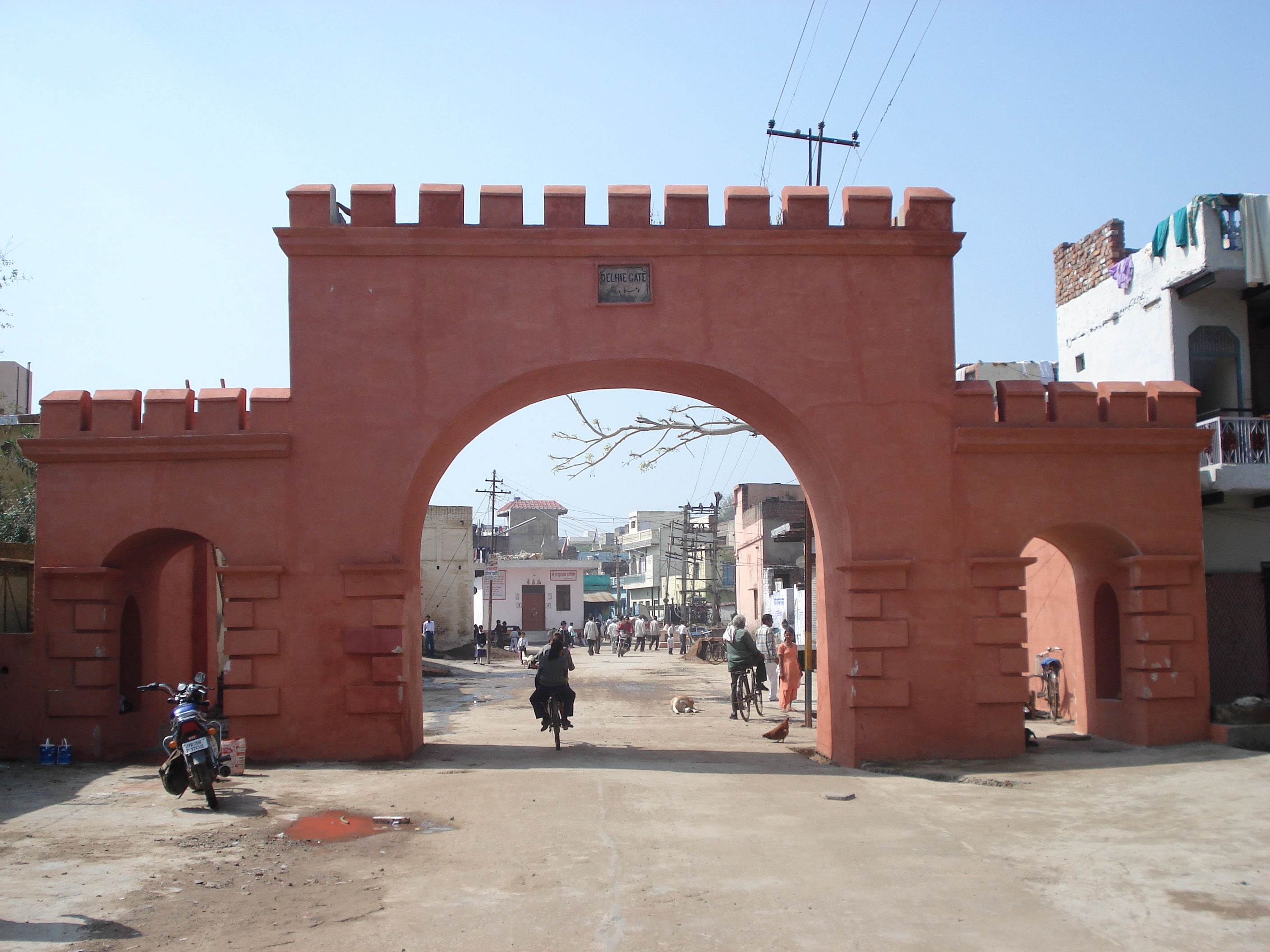 This is the picture of 'Delhie Gate' ar Rewari, one of the four historic security gates.